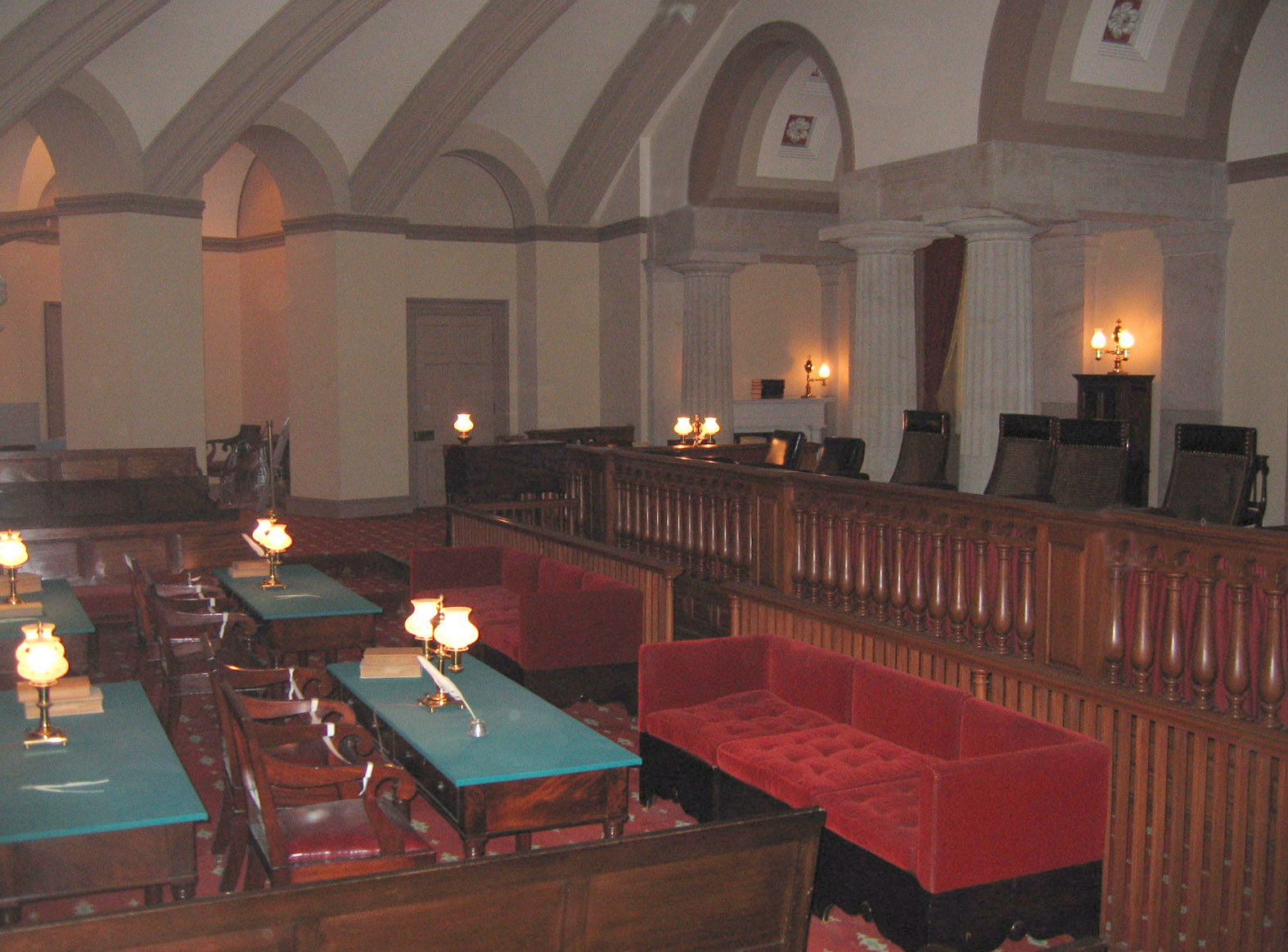 The restored Old Supreme Court Chamber in the United States Capitol—the courtroom of the Supreme Court of the United States from 1819-1860.